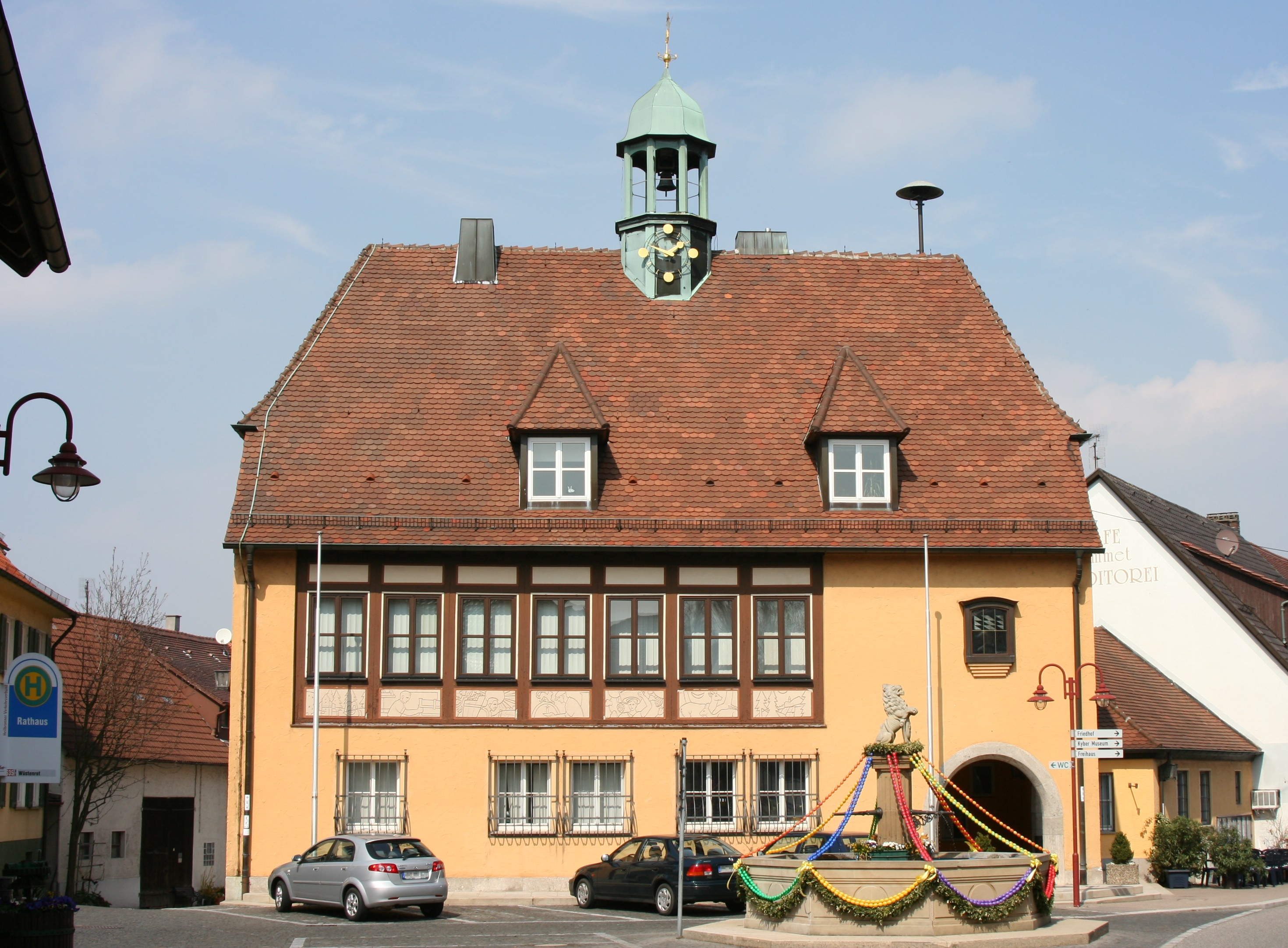 The town hall in Löwenstein